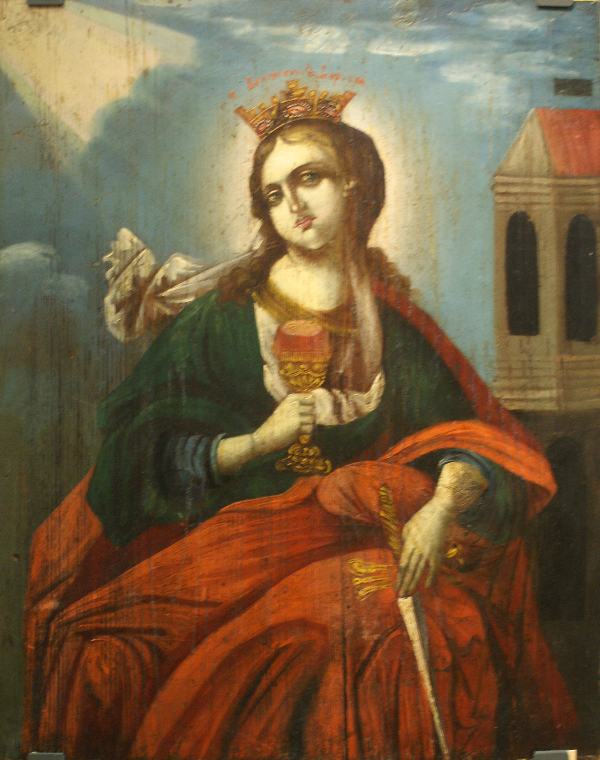 St. Barbara the Great Martyr. oil on panel. Vietka museum.